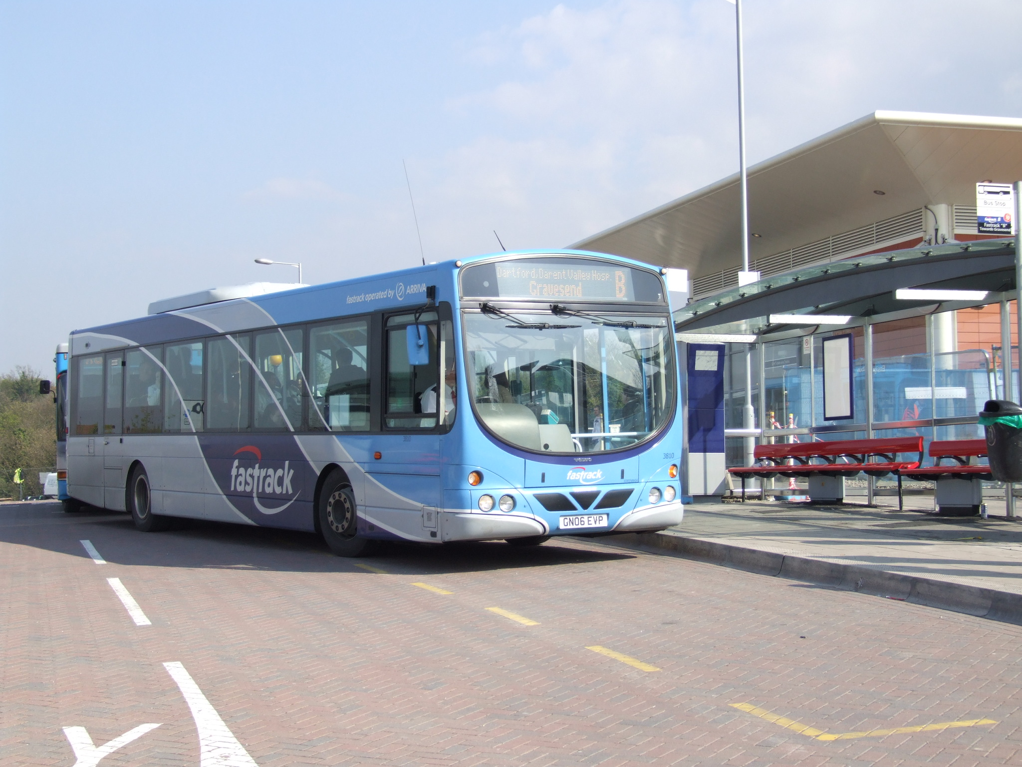 Greenhithe, Kent in April 2008. Fastrack Route B in front of the new booking hall at Greenhithe Station. Here, both routes, in both directions stop outside the station. See